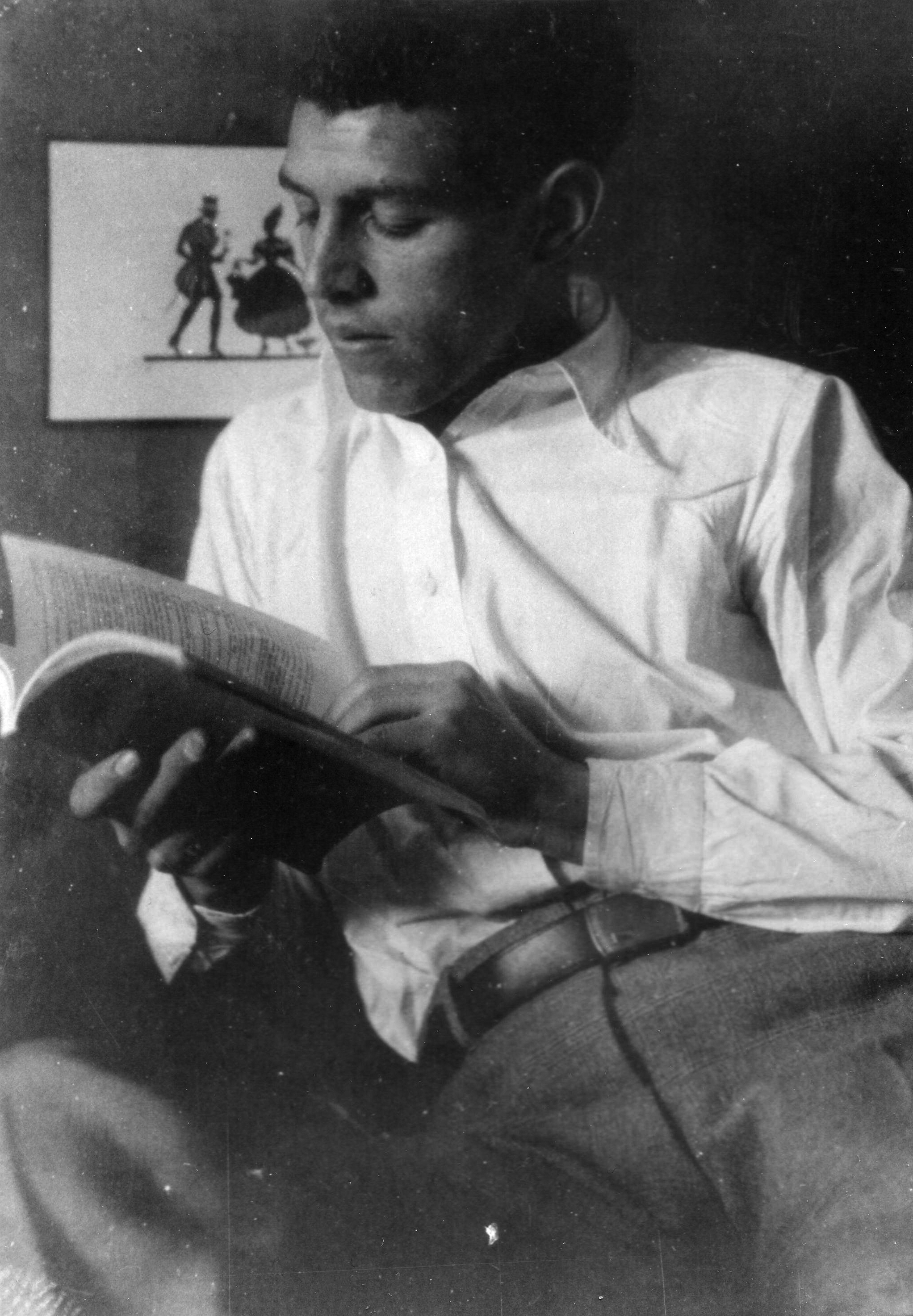 Munio Weinraub at Bauhaus school